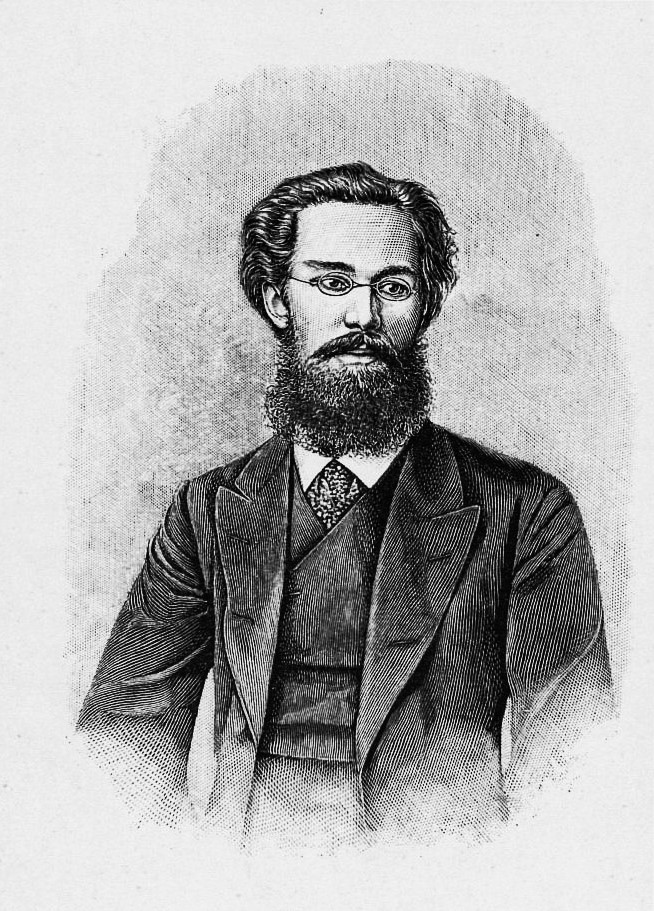 Russian writer Vasily Sleptsov